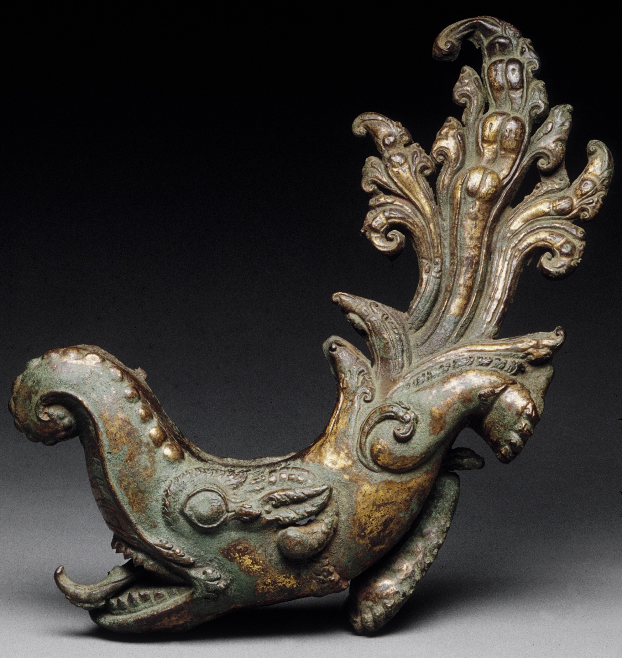 Nepal, 10th century Sculpture Repoussé copper alloy with traces of gilding Gift of James H. Coburn III (M.85.279.6) South and Southeast Asian Art